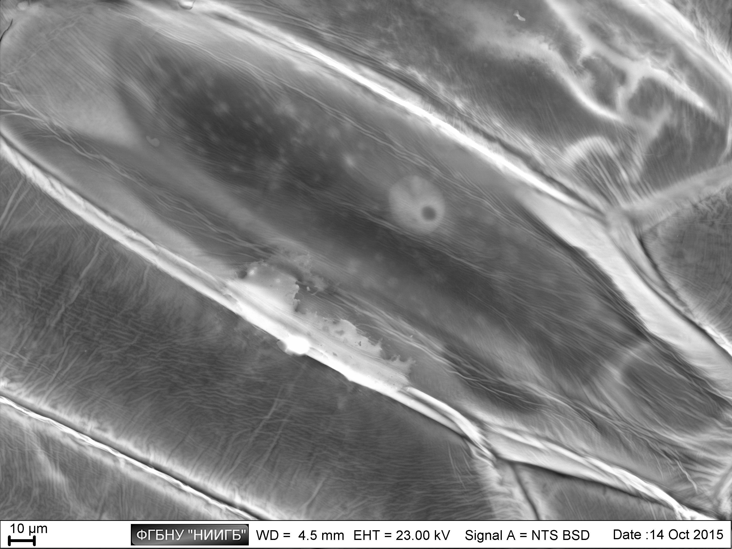 Epidermal cells from the inner surface of an onion flake. Beneath the shagreen-like cell walls one can see nuclei and small organelles floating in the cytoplasm. This BSE-image of a lanthanoid-stained sample was taken with EVO LS10 scanning electron microscope (Zeiss, Germany) without prior fixation, nor dehydration, nor sputtering. The unique method of sample preparation used here (BioREE, Russia, with support from the Research Institute of Eye Diseases, Russia) provides an outstanding contrast between subcellular structures giving an impression of light microscopy but at the resolution of SEM. A sample thus prepared resembles a block of ice with air bubbles in it – the deeper an object lies, the lower contrast it has and the more diffused it appears. Coauthor: A.M. Subbot